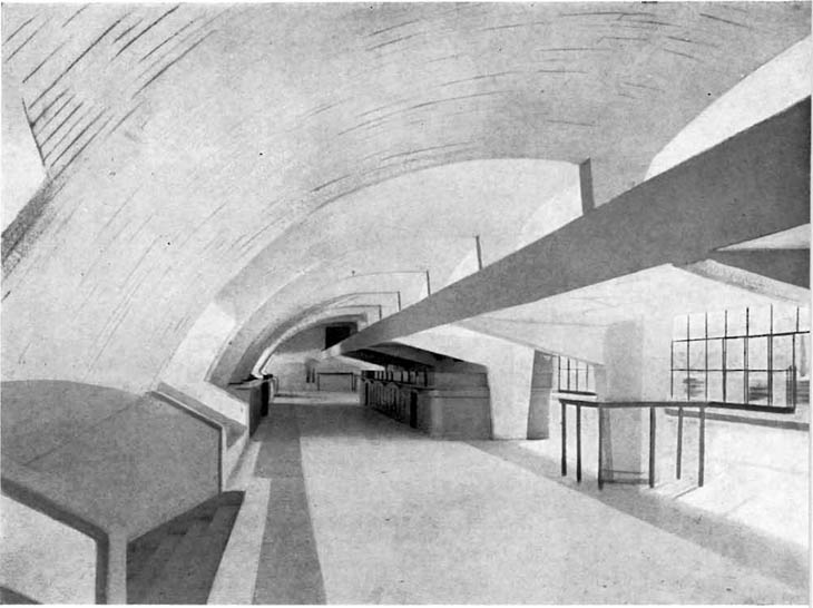 Martín Domínguez Esteban_Hipódromo de la Zarzuela Arniches.2, Domínguez y Torroja